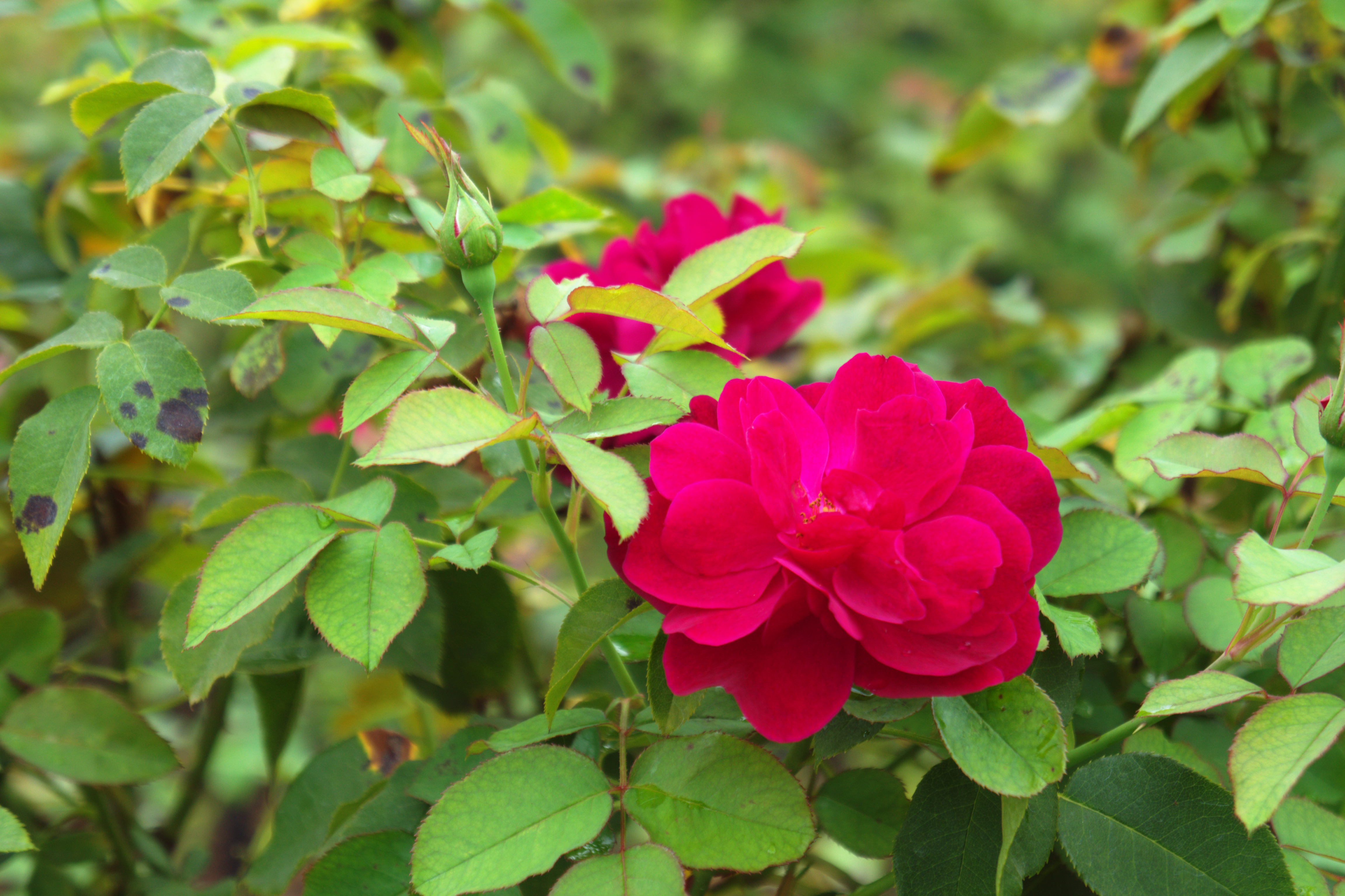 Taken at the New York Botanical Garden.